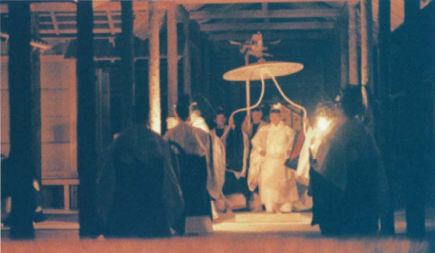 Emperor Akihito participated in the Daijōsai in 1990.I edited a file in Ministry of foreign affairs